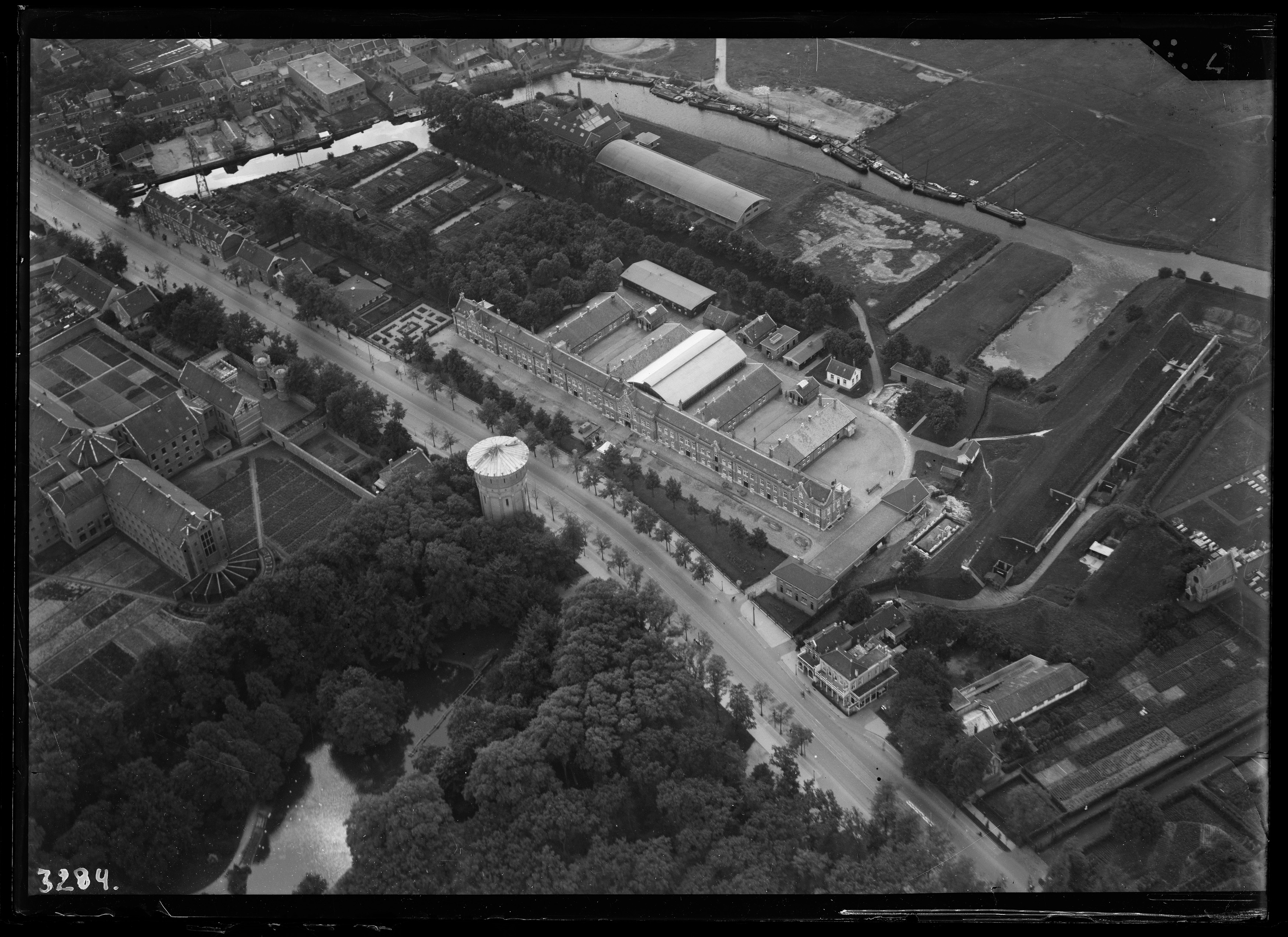 Aerial photograph of Groningen, The Netherlands